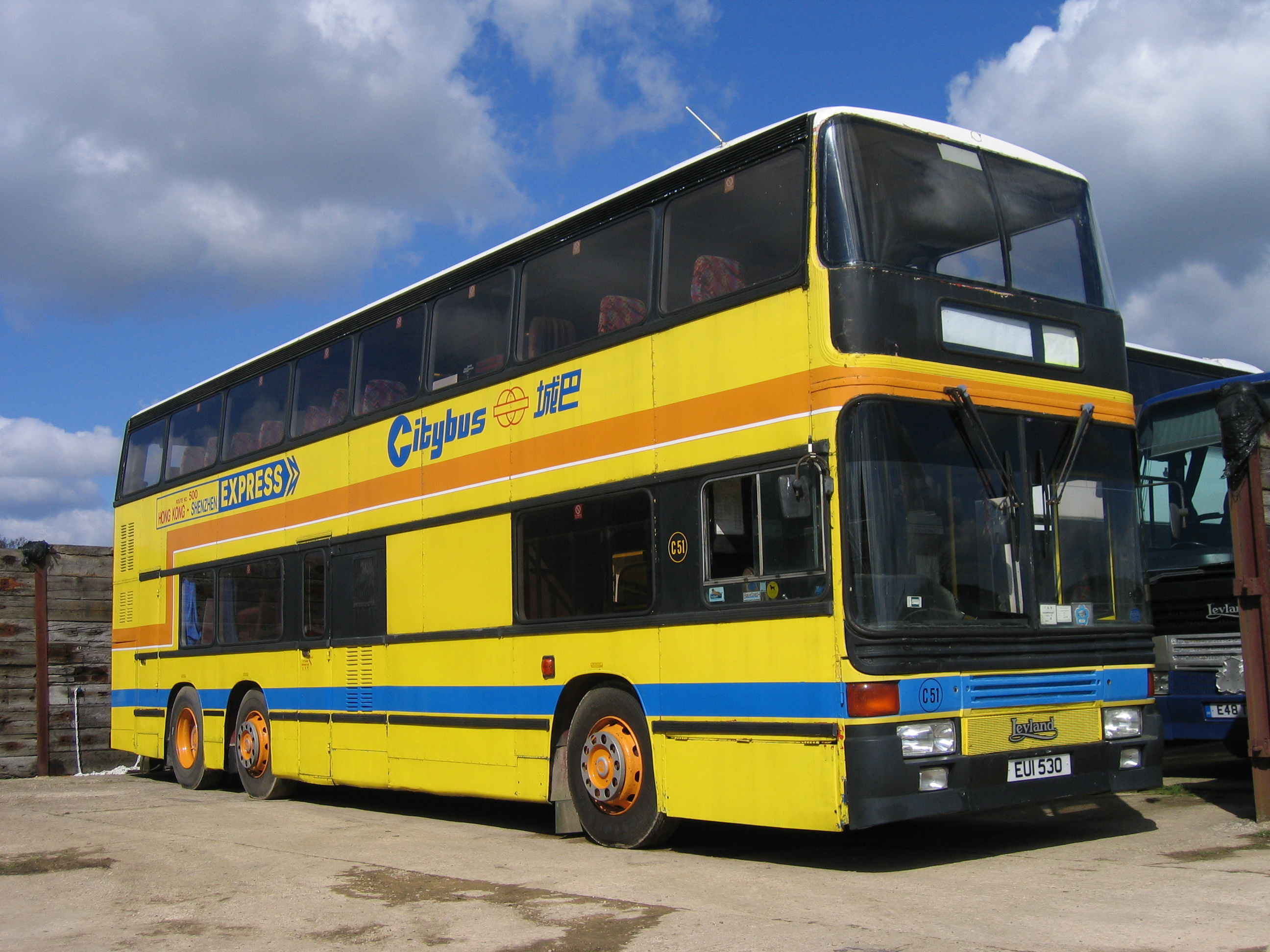 ex CTB C51/102 DE4281 in original cross border livery in UK preservation. This bus was registered EUI530 at the time.